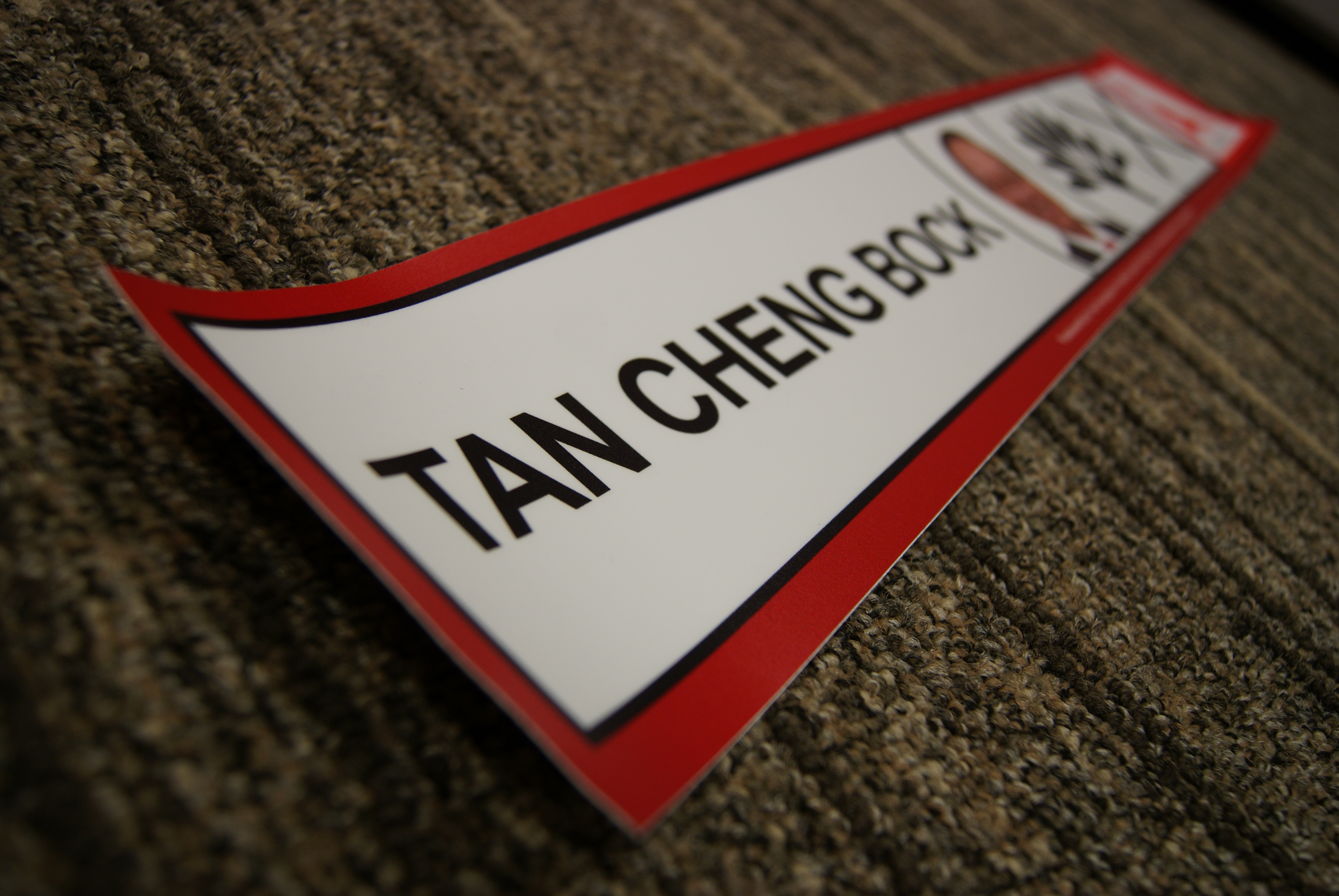 Part of a bumper sticker of Tan Cheng Bock, who was an unsuccessful candidate during the Singaporean presidential election, 2011.